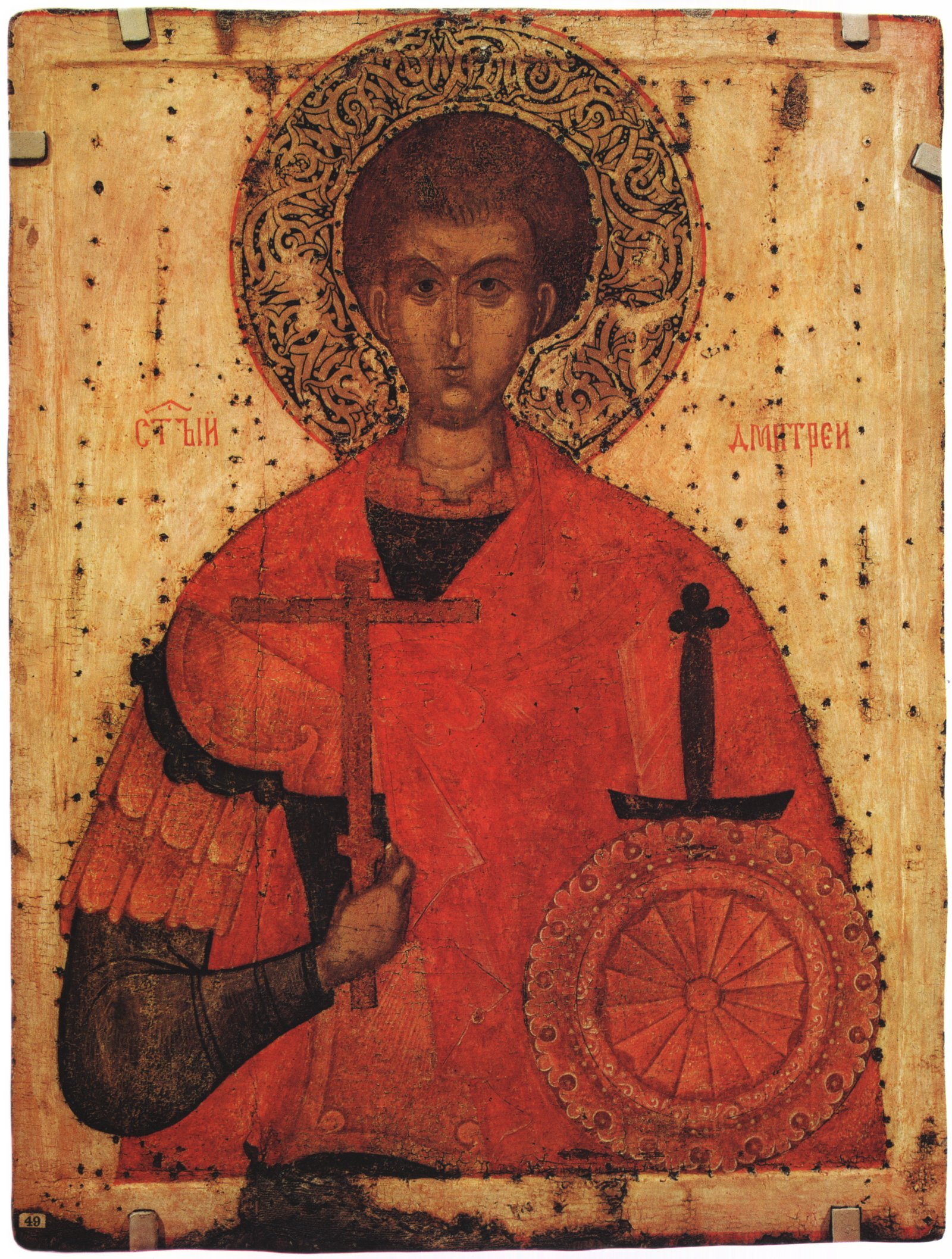 Saint Demetrius of Thessaloniki Tempera on wood, 87x57x3.5, Russian Museum, Sankt Petersburg